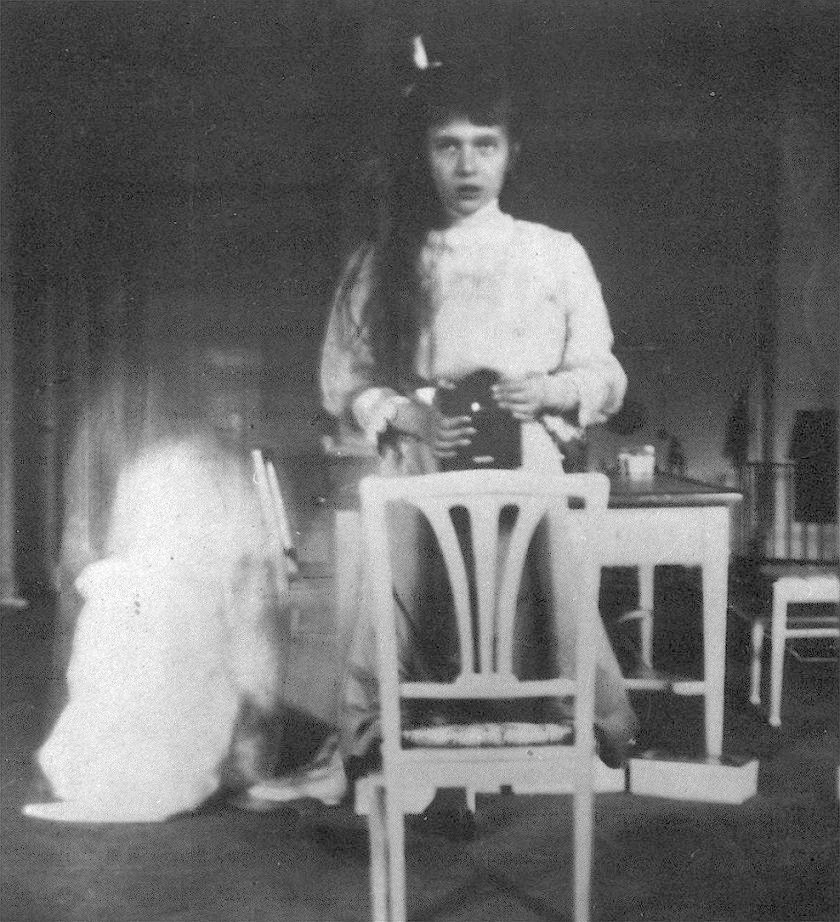 Self photographic portrait using a mirror and Kodak Brownie box camera taken by Russian Grand Duchess Anastasia Nikolaevna, October 1914.